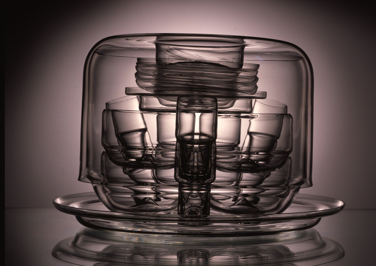 Variable glass set